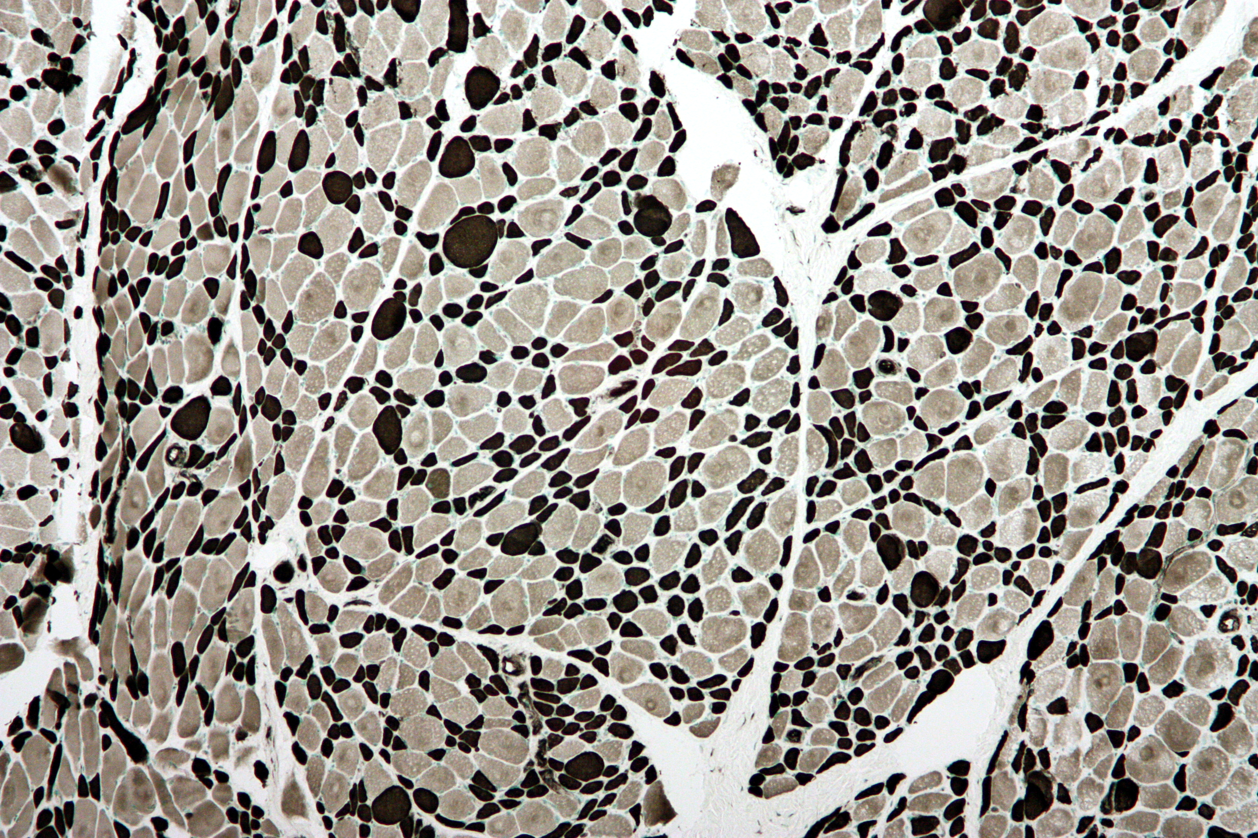 Intermediate magnification micrograph of denervation atrophy of type 2 fibres. ATPase pH 9.4 stain. Muscle biopsy. There is fibre type group, group atrophy and prominent target fibres. The ATP9.4 stain demonstrates atrophy of type 2 fibres. Related images Intermed. mag. High mag. Very high mag. High mag. SDH. Very high mag. SDH. Intermed. mag. ATPase pH 9.4. High mag. ATPase pH 9.4.